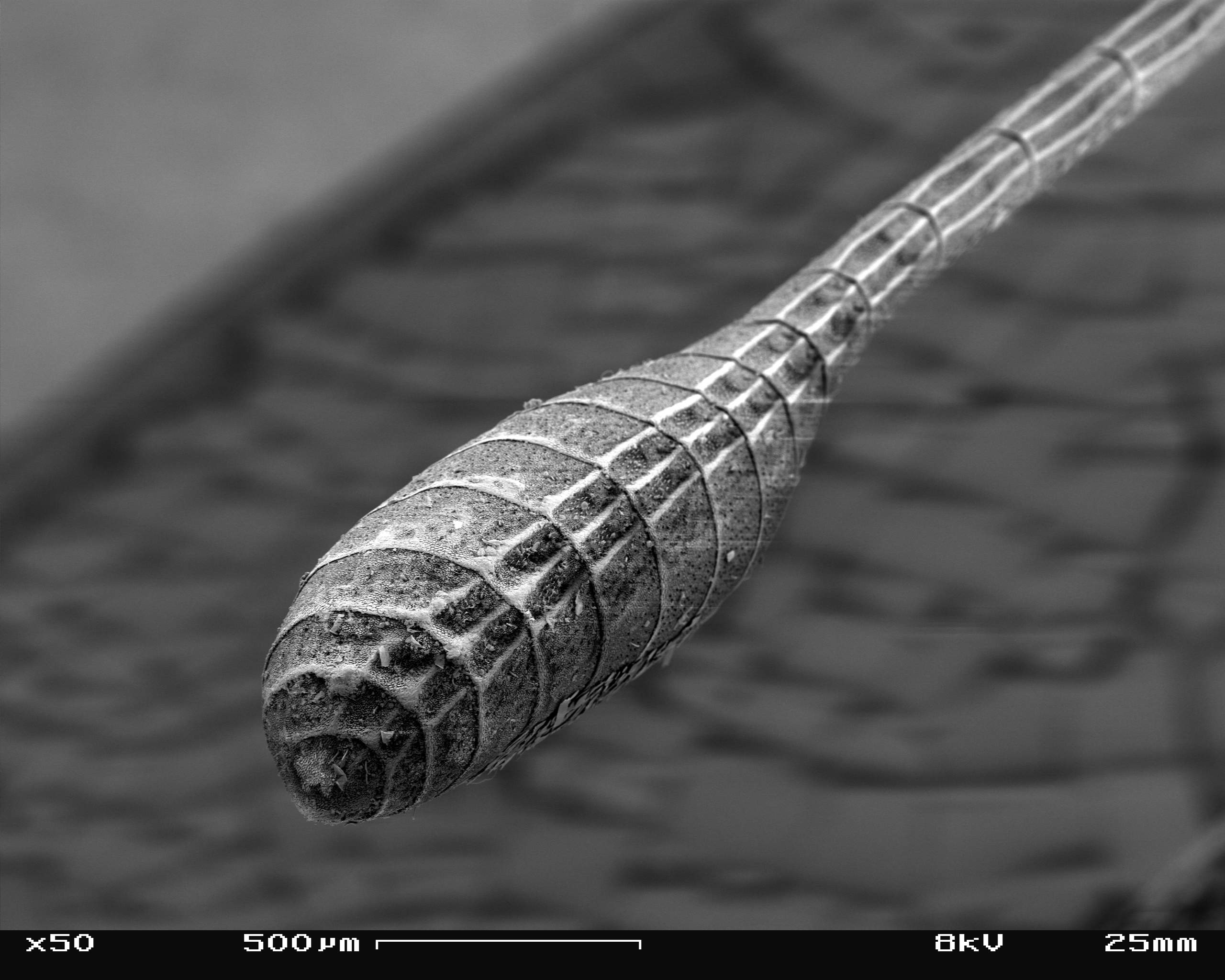 SEM image of a Peacock antenna tip, slant view 1